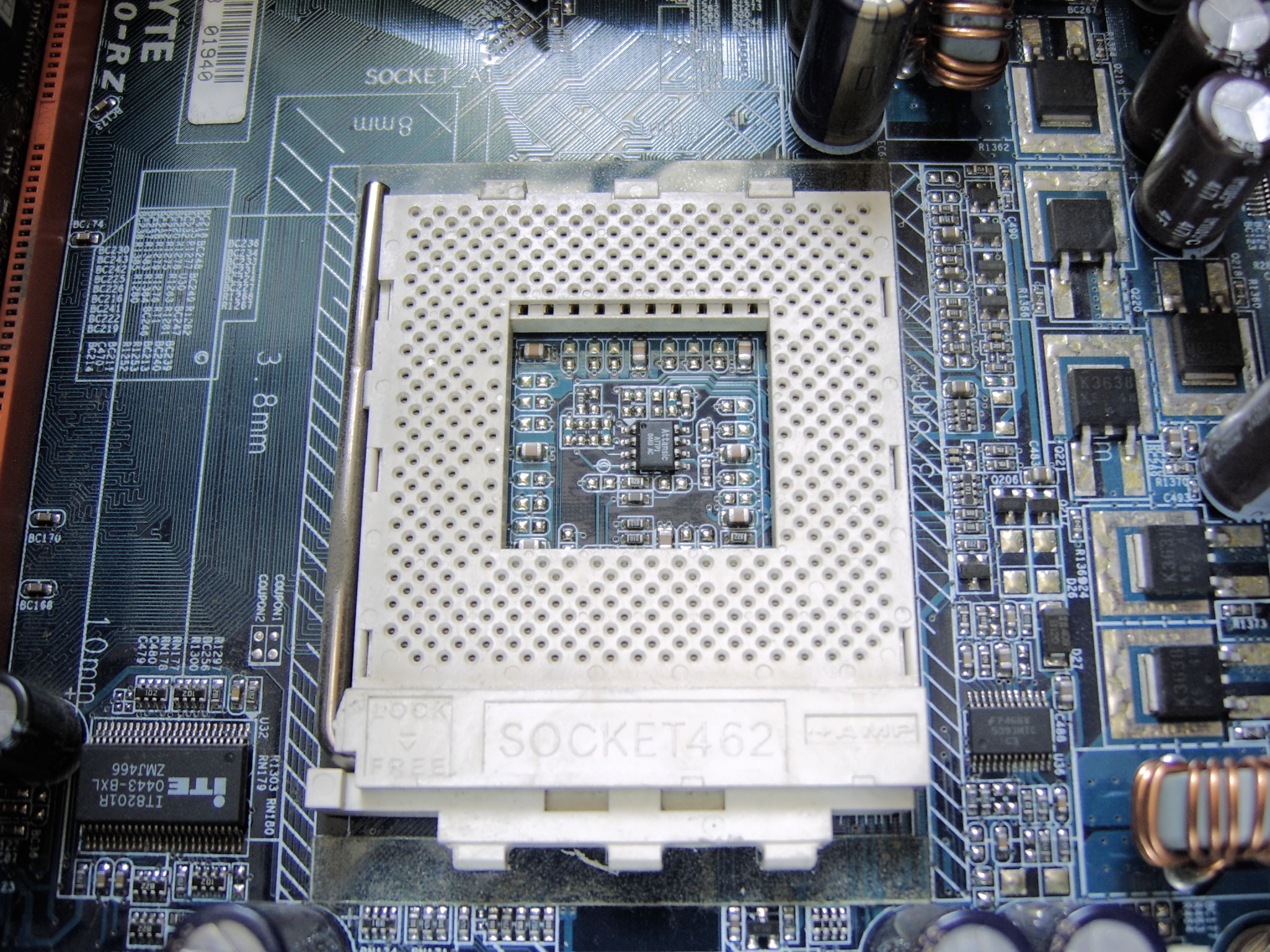 Socket A (Socket 462) on motherboard Gigabyte GA-7VT880-RZ(C)